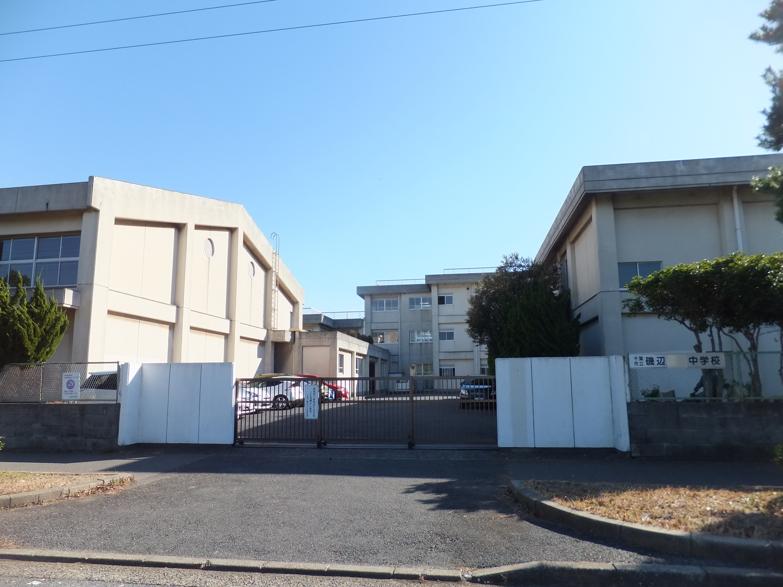 Chiba Municipal Isobe 2nd Junior High School in Mihama Ward, Chiba